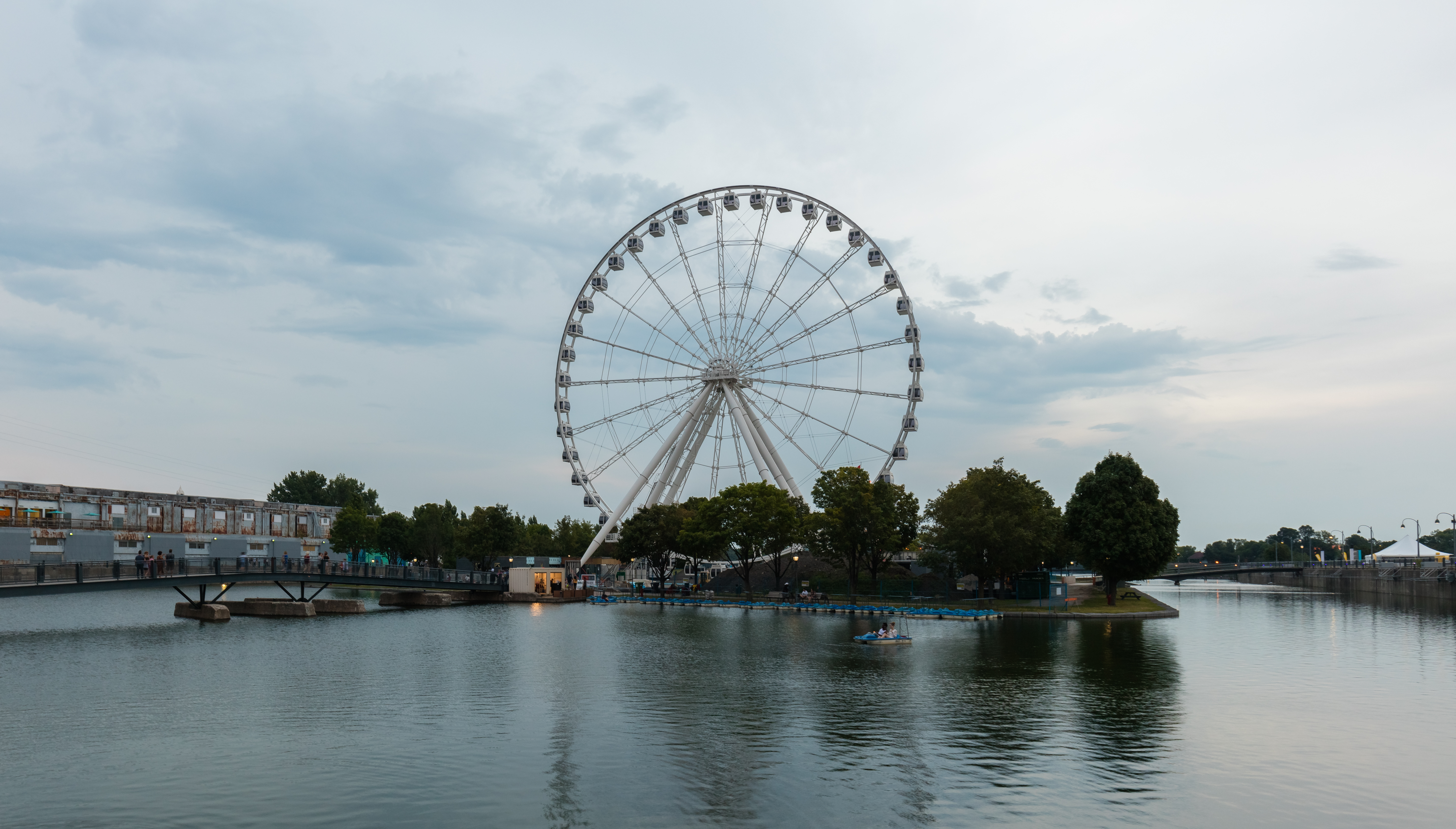 Old Port of Montreal, Canada